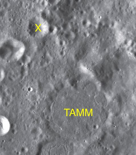 Part of the chart LAC-84 used for the presentation.